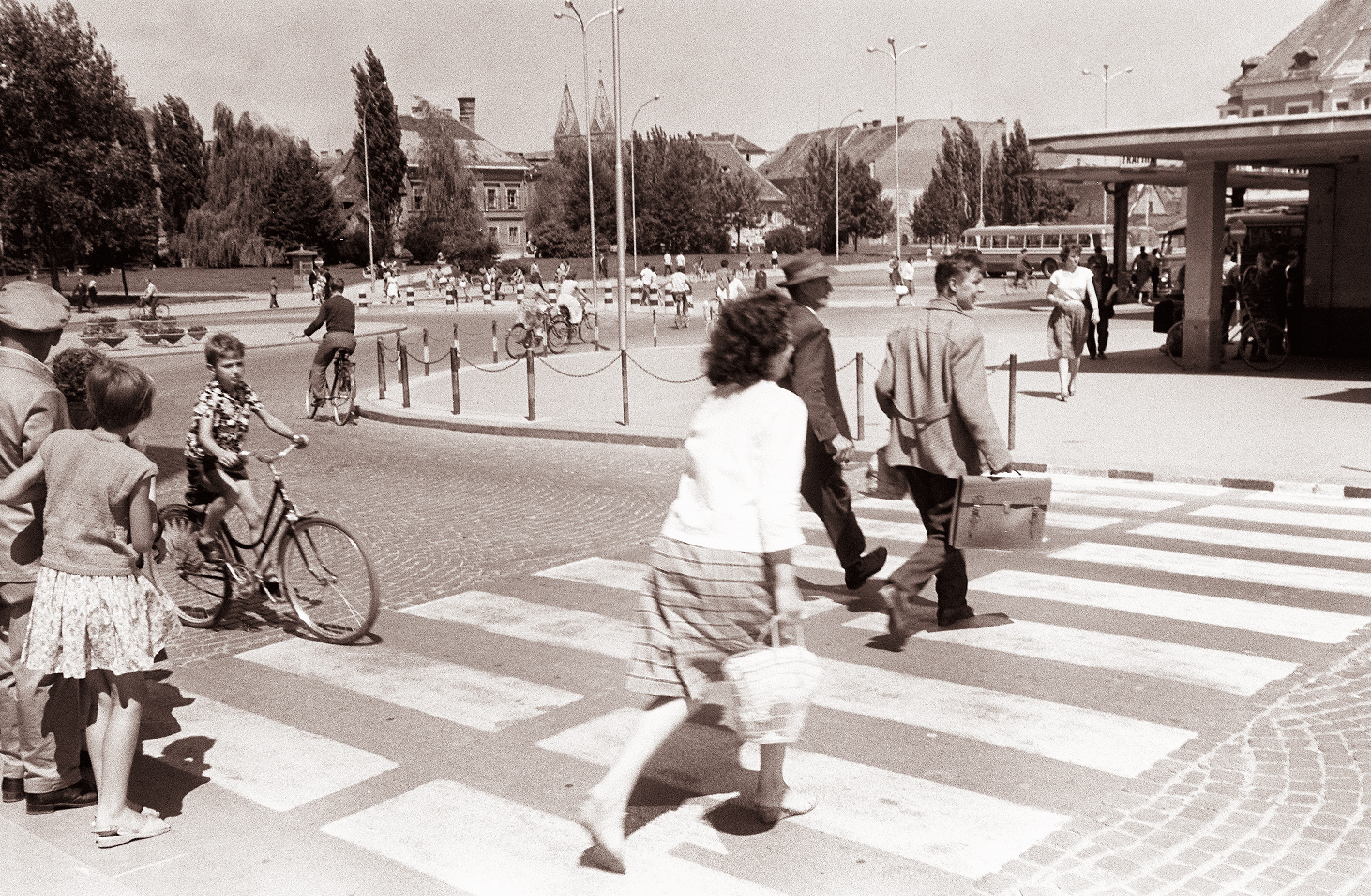 Pedestrian crossing on the Main Square near the Old Bridge